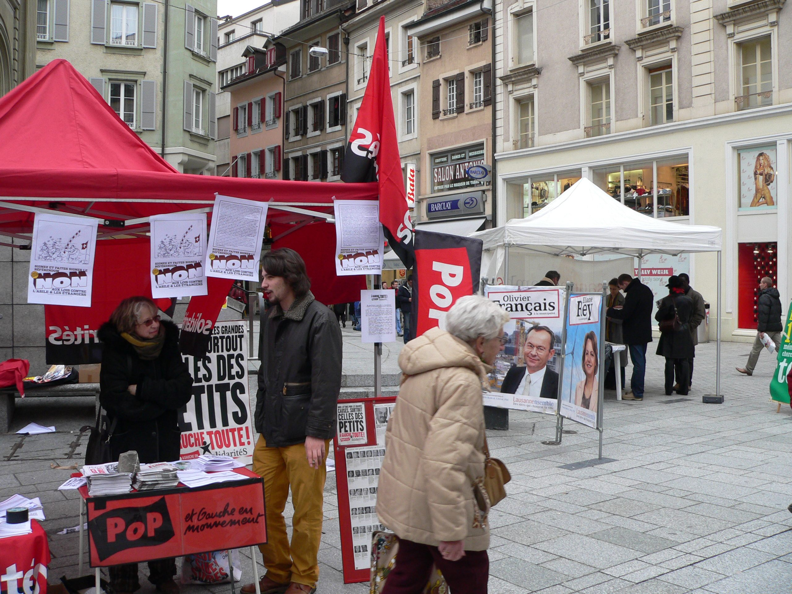 Municipal elections in Lausanne, February 2006